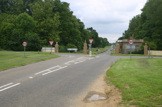 Road to Stowe The A422 road crosses whilst straight ahead leads to Stowe